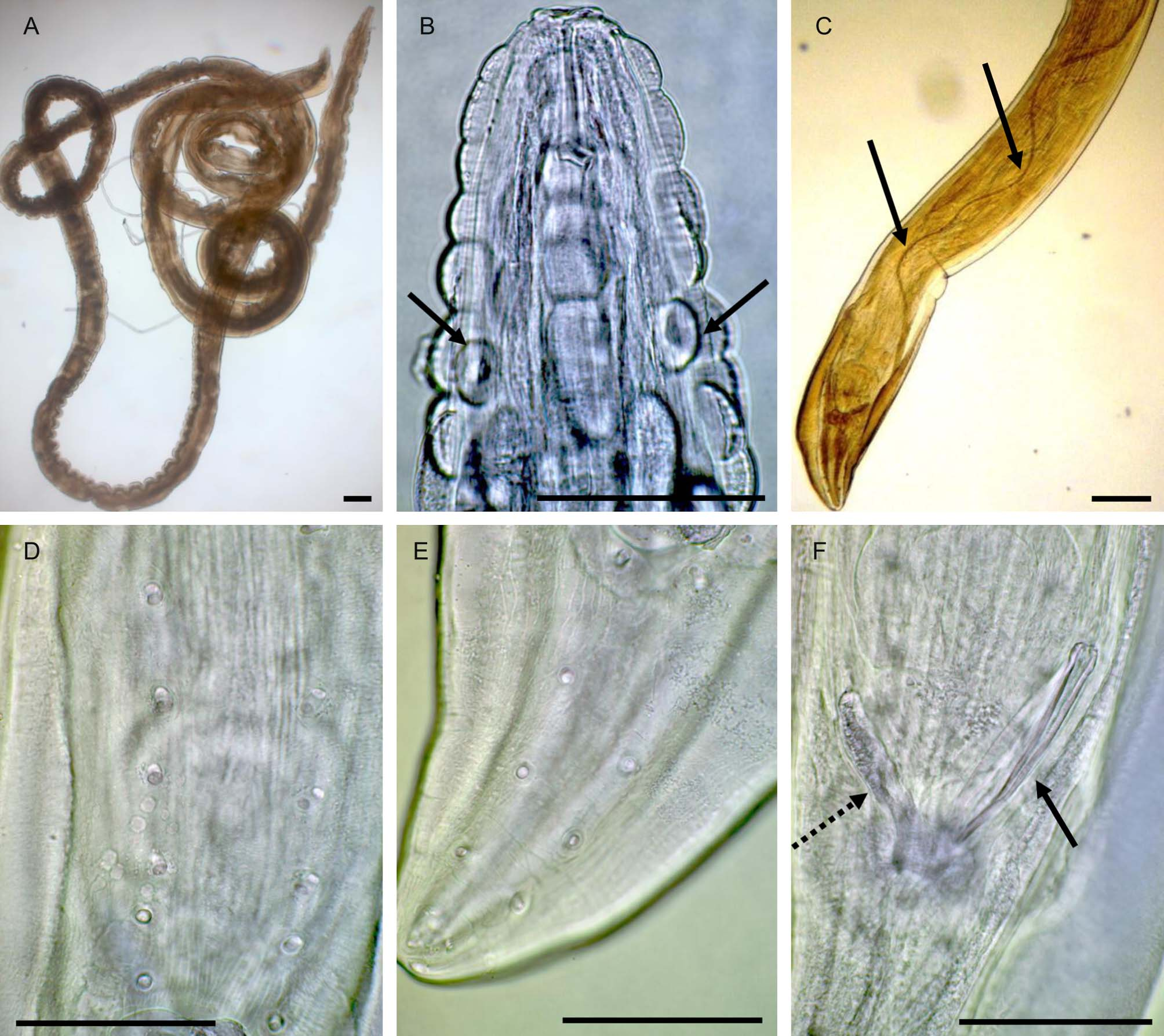 Gongylonema pulchrum (Nematoda), male. Bars: 100 μm. A – entire male. B – cuticular bosses and deirids (arrows). C – posterior end and left spicule (arrows). D – precloacal papillae. E – postcloacal papillae. F – posterior end: right spicule (arrow) and gubernaculum (dotted arrow).